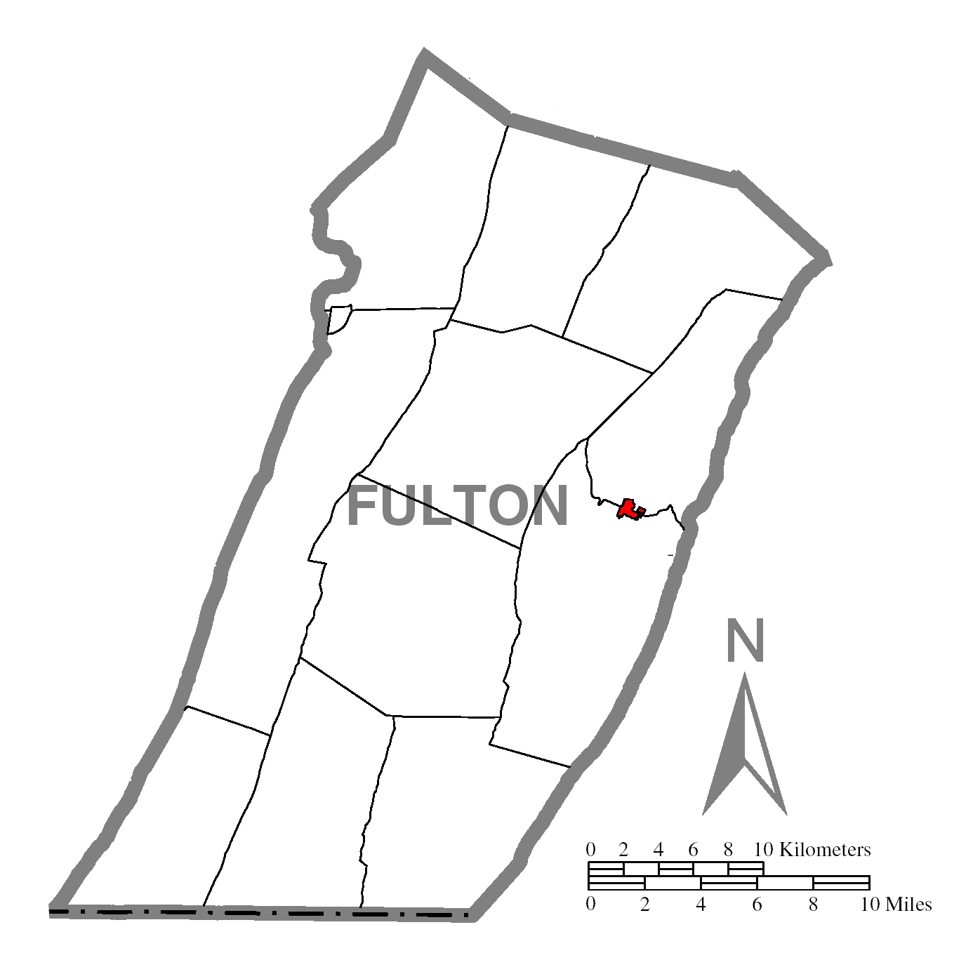 A map of Fulton County showing McConnellsburg, Pennsylvania (alternate) highlighted on the map.